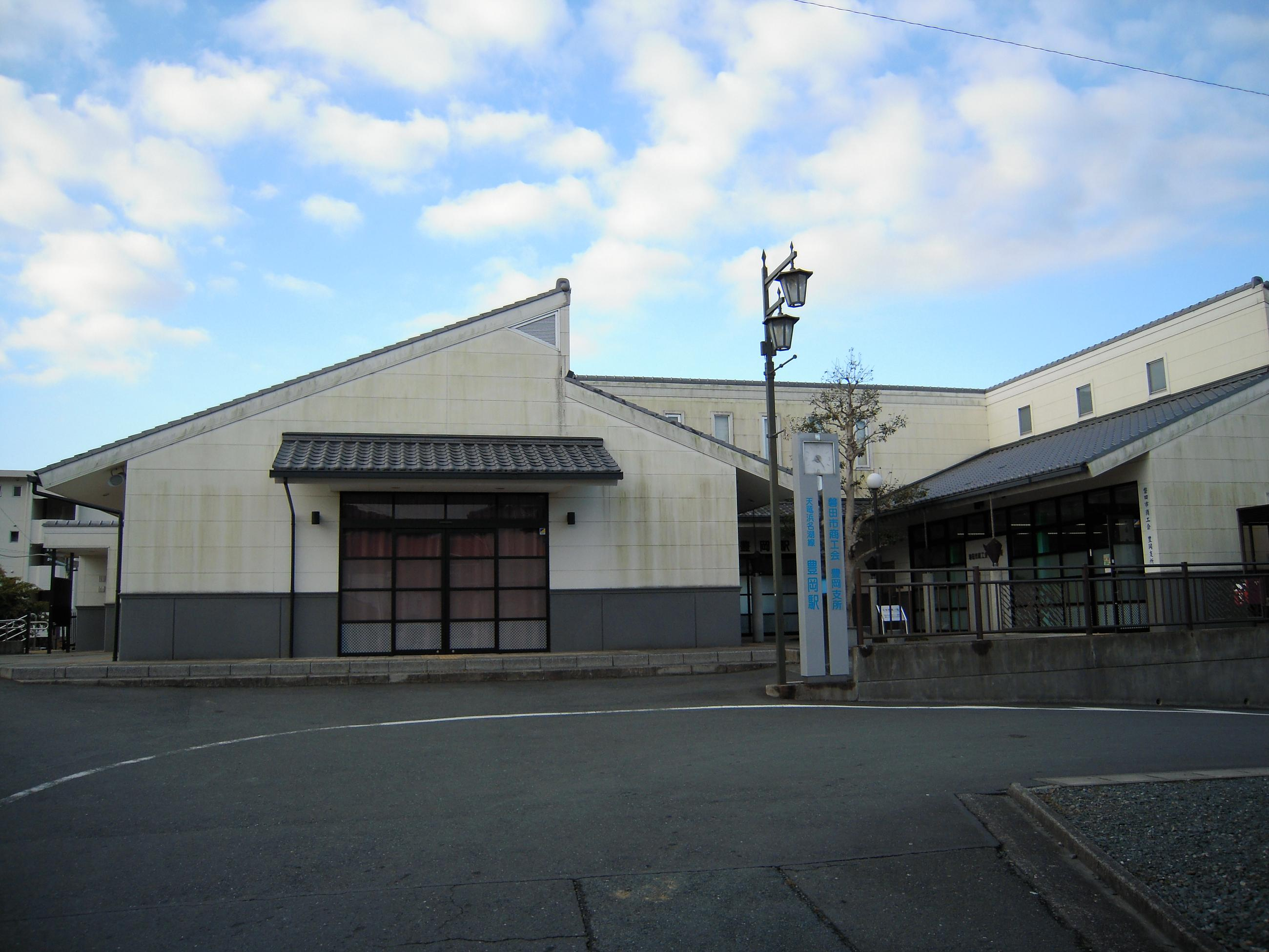 Tenryu-Hamanako railroad company Tyooka Station